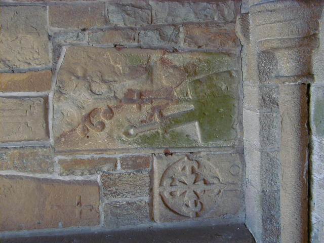 I took this photograph. Detail of carved and coloured stones used in the interior entrance walls.